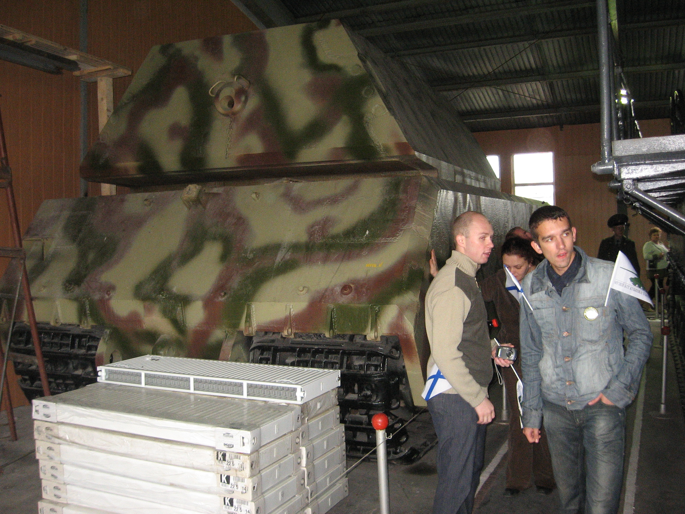 German Panzerkampfwagen Maus, displayed in Kubinka Tank Museum. Photo taken on September 10, 2006. Source: Photo by BVV